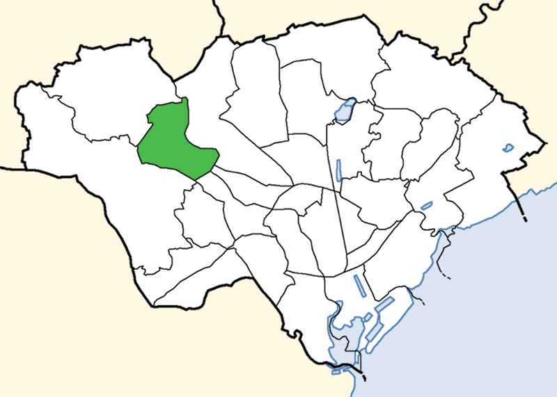 Location map showing electoral ward of Radyr (sometimes known as Radyr & Morganstown) within Cardiff, Wales